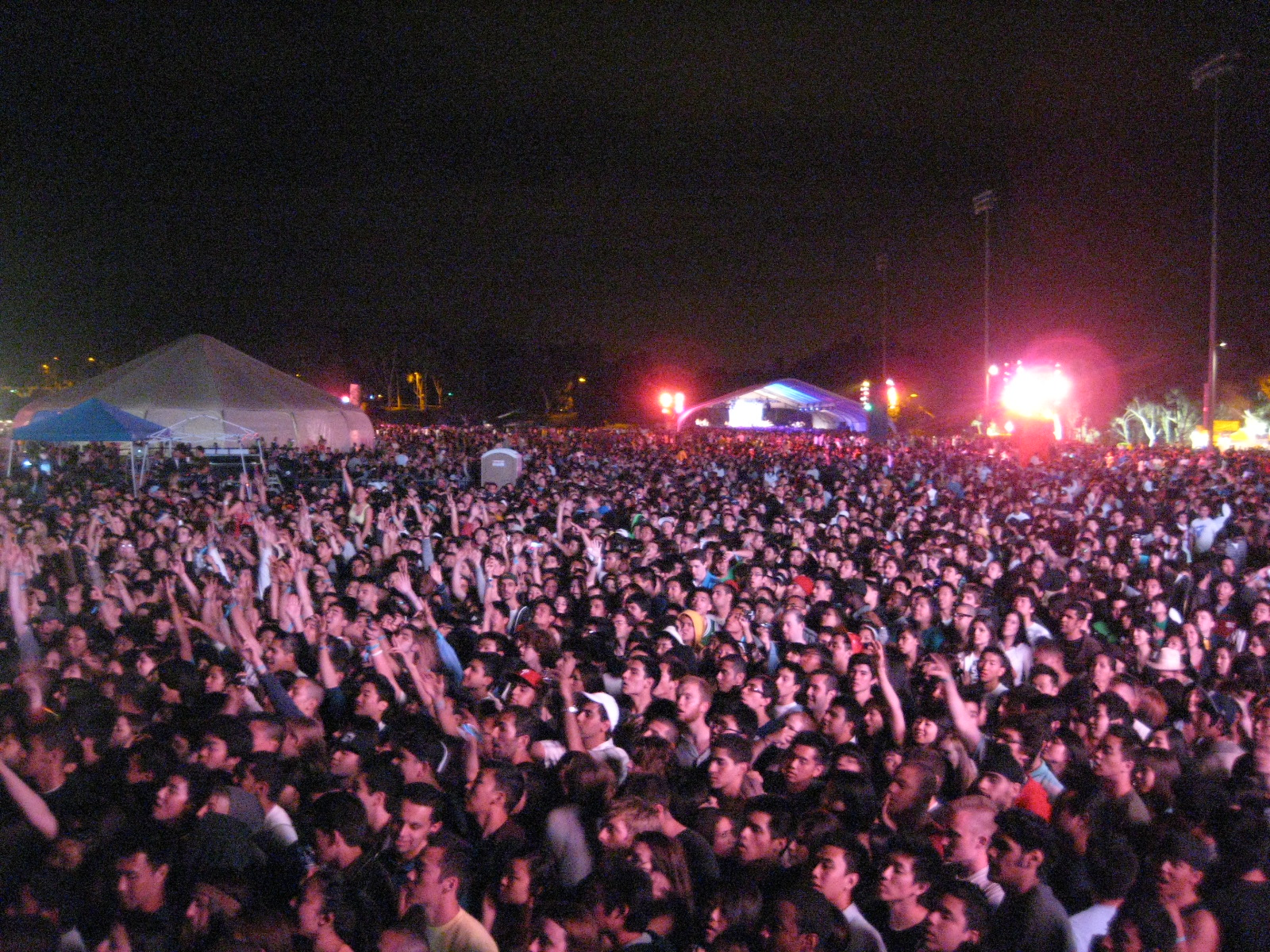 A photo from the Main Stage of the Sun God Festival 2009 during N.E.R.D.'s set.